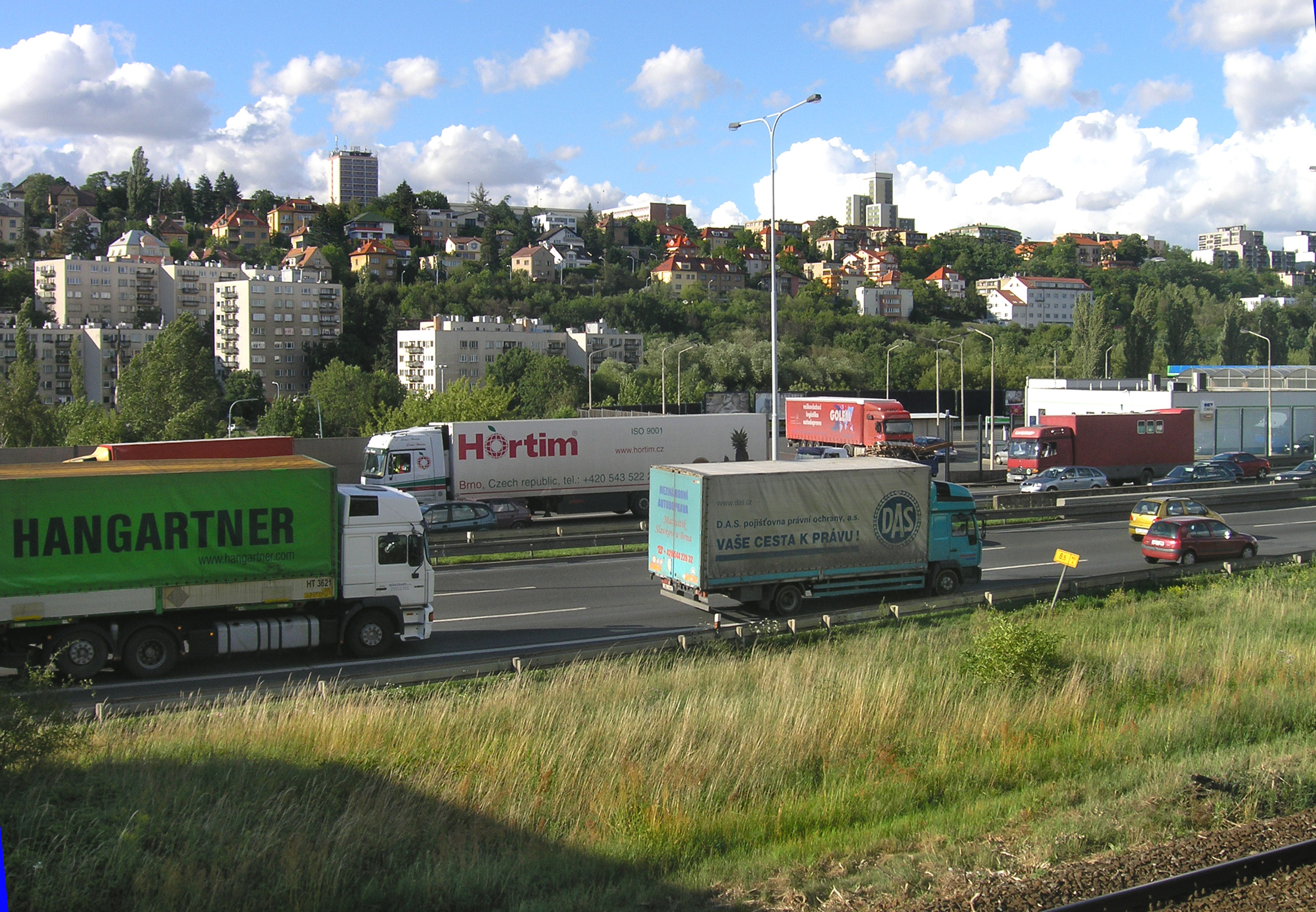 Highway "Jižní spojka" (South Connection) at Braník, Prague